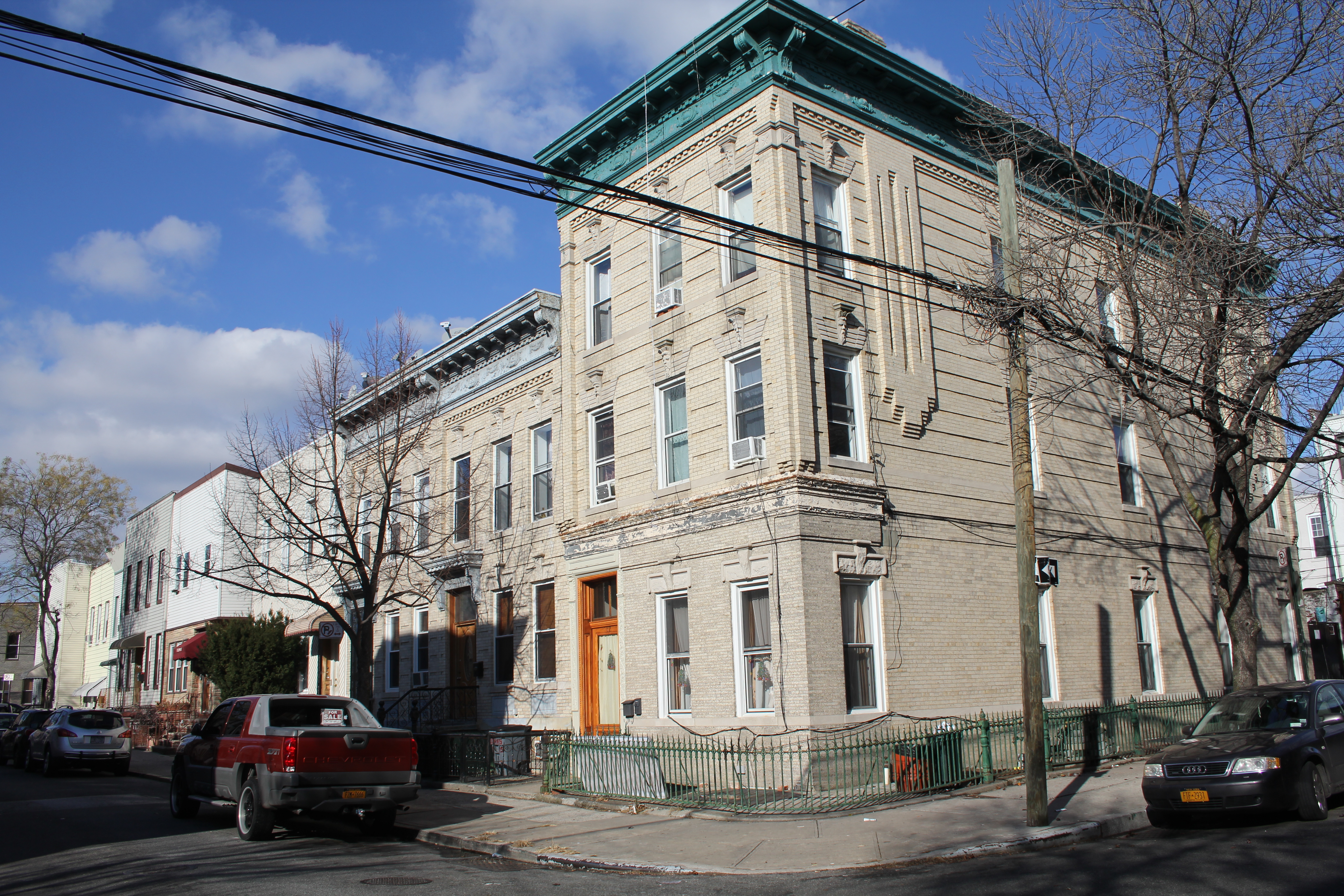 Apartment buildings in Grove–Linden–St. John's Historic District, listed on the National Registry of Historic Places (NRIS #83001772). Grove St. and Saint John Rd., NW corner, Ridgewood, Queens.